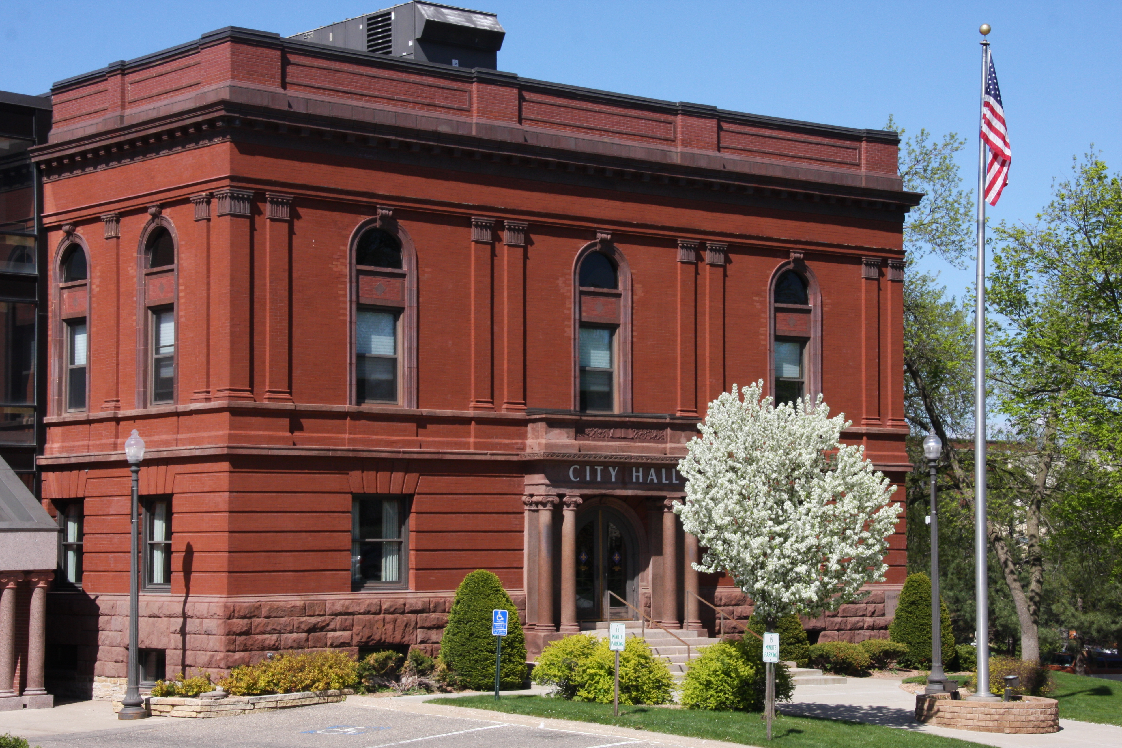 Faribault City Hall, 208 First Avenue N.W., Faribault, Minnesota, United States, viewed from the southwest